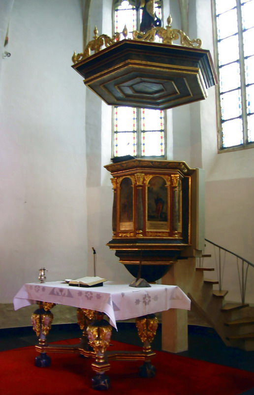 View of the chancel of the Ev. church at municipality Nümbrecht. - Blick auf Kanzel und Abendmahlstisch der Ev. Kirche in Nümbrecht. Author mrfinch Time of creation 29 Oct. 2004 Licence GNU FDL and CC-by-SA Camera Canon S 45